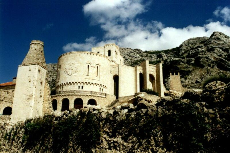 Kruja in Albania. This foto was made in September 2000 by Stefan Kühn.